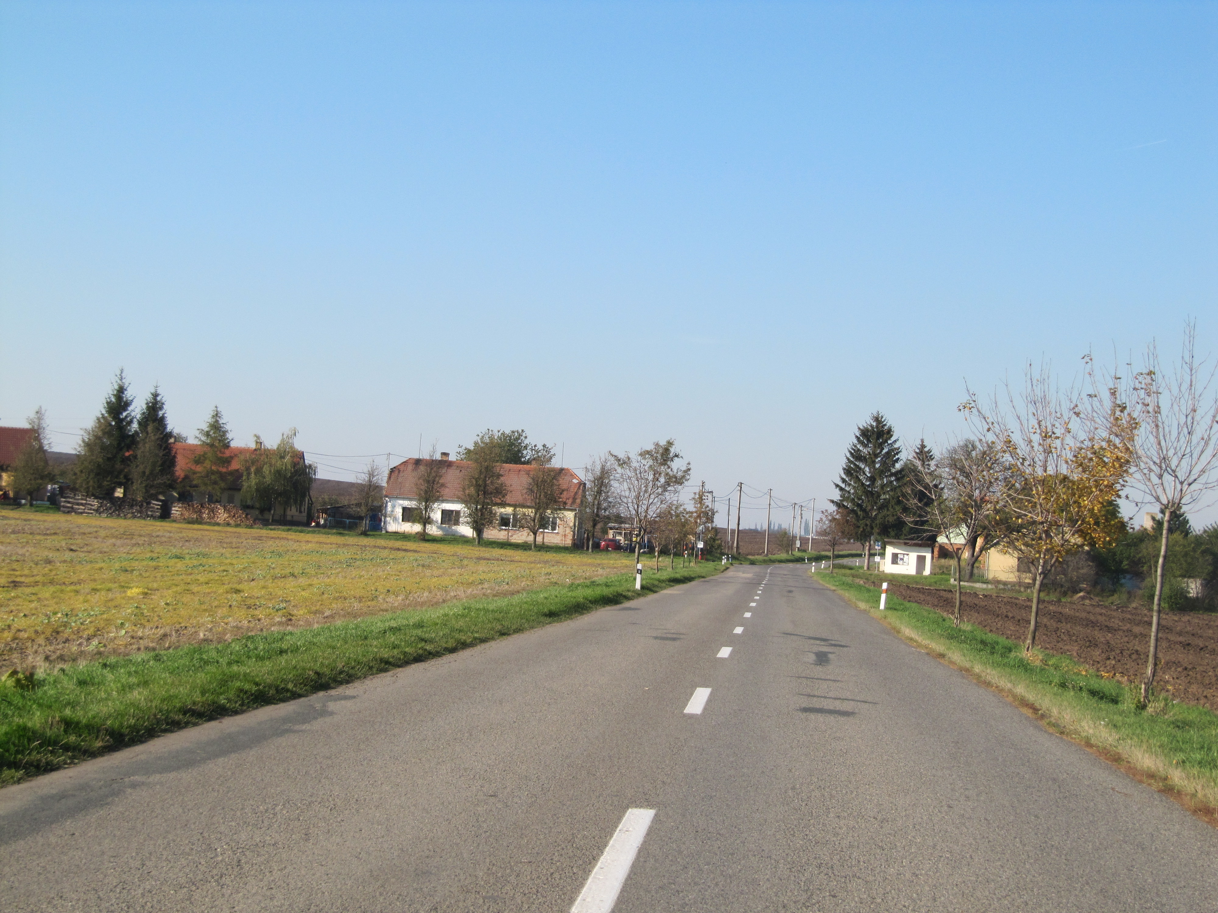 Milonice, Vyškov District, Czechia.